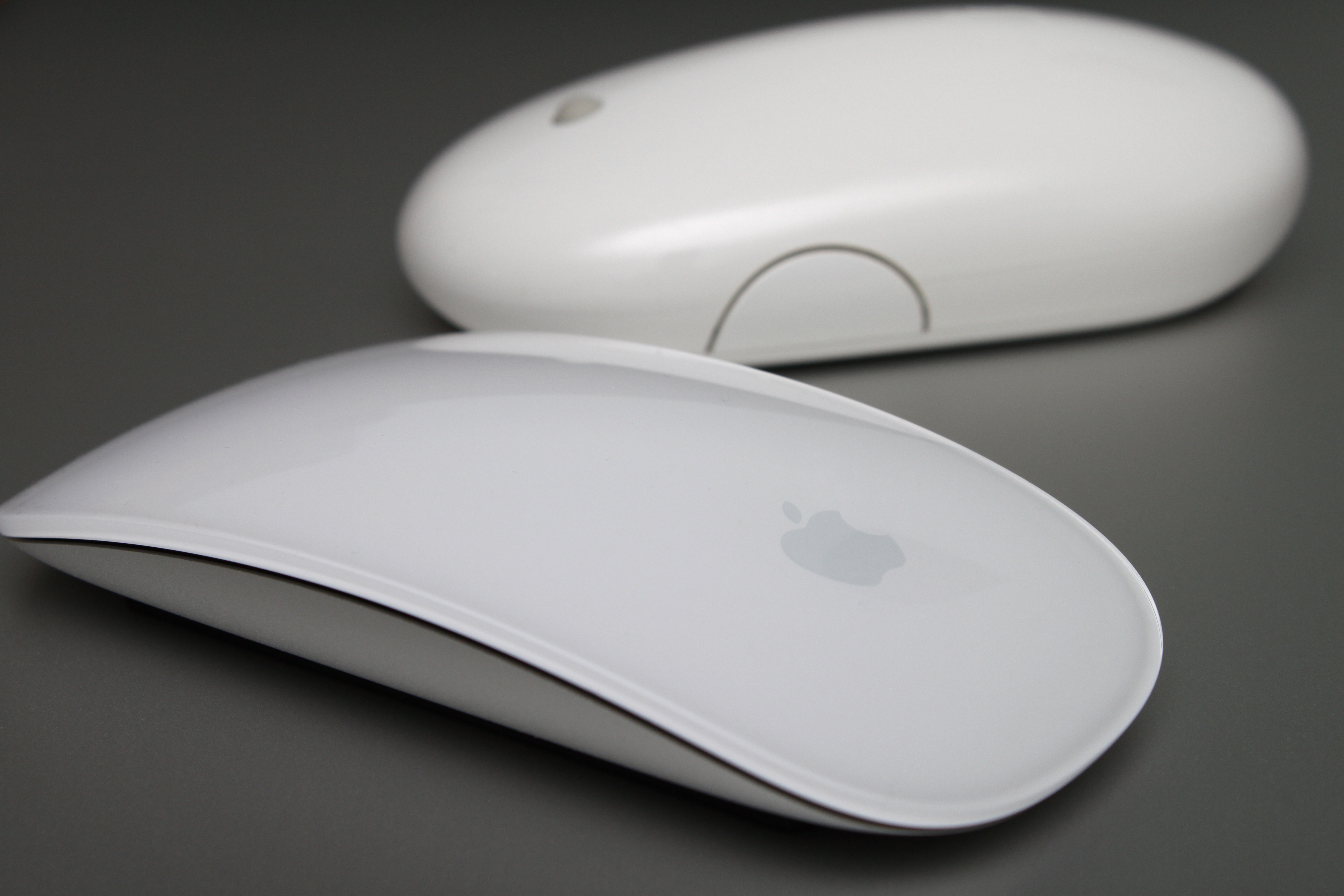 Magic Mouse and Mighty Mouse on MacBook Pro. Canon Rebel T1i with Speedlite 580EX II.